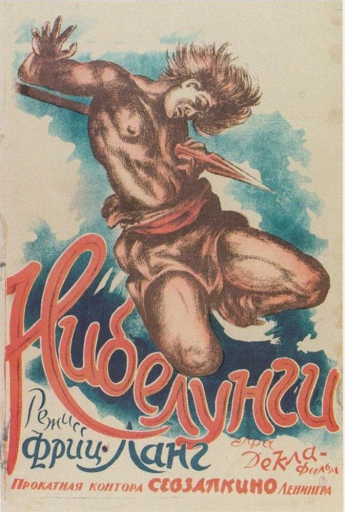 Soviet poster of The Nibelungs. Anonimous artist. 1924.